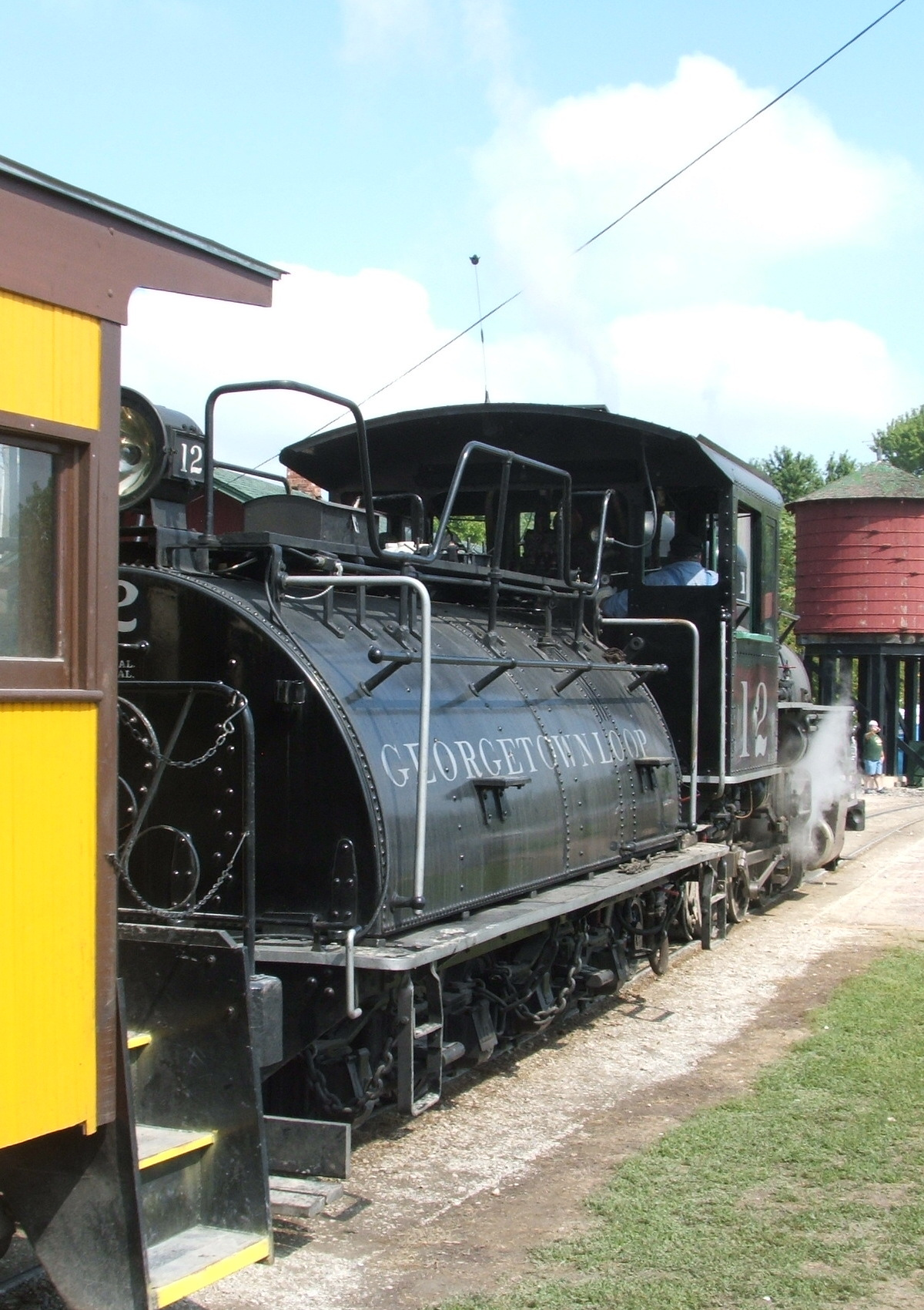 Georgetown Loop Railroad locomotive number 12, running on the tracks of the Midwest Central Railroad. This 3-foot gauge locomotive has a whaleback tender. It was built by the Baldwin Locomotive Works for the Kahului Railroad in 1928.